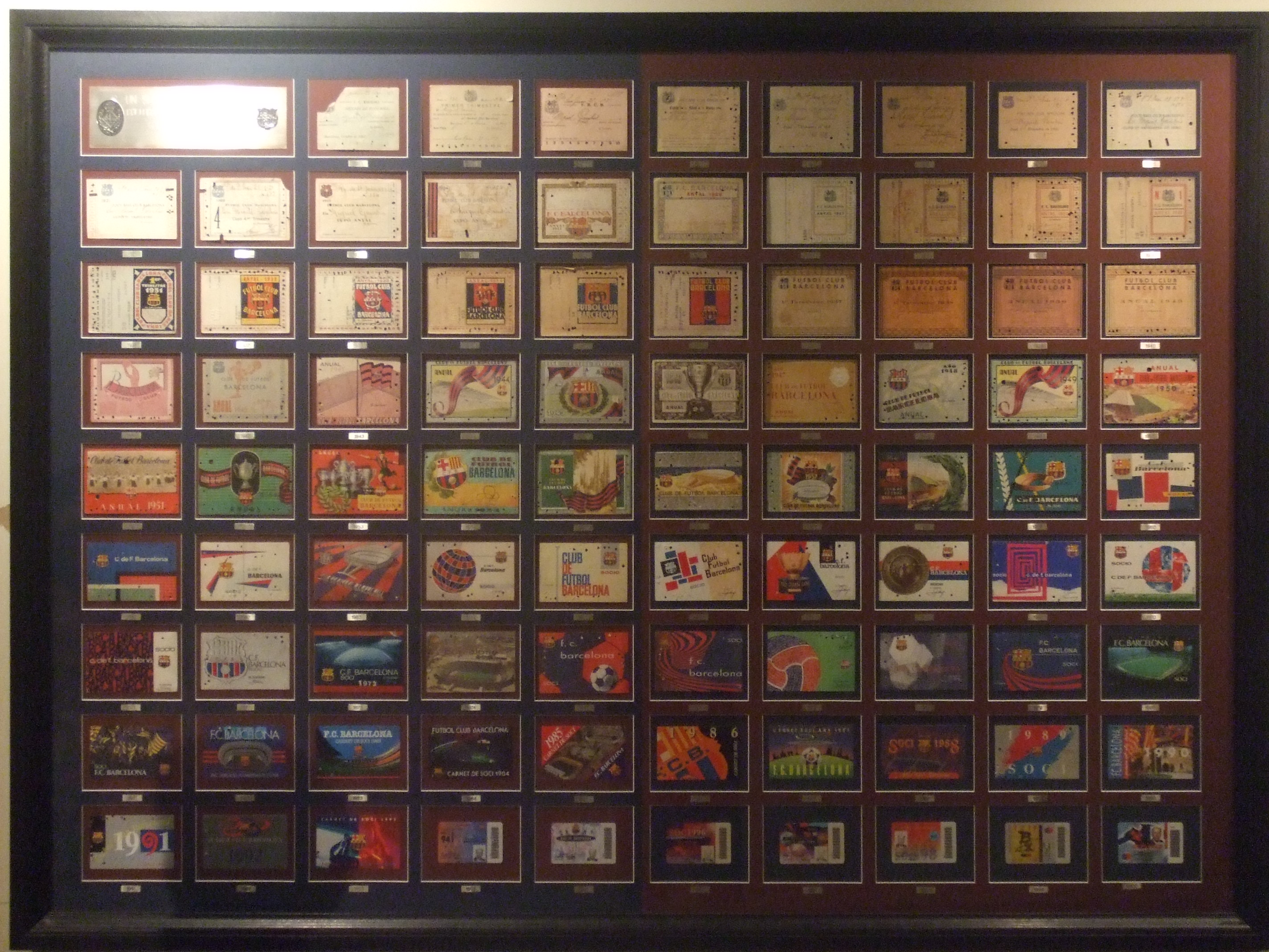 Barça membership card